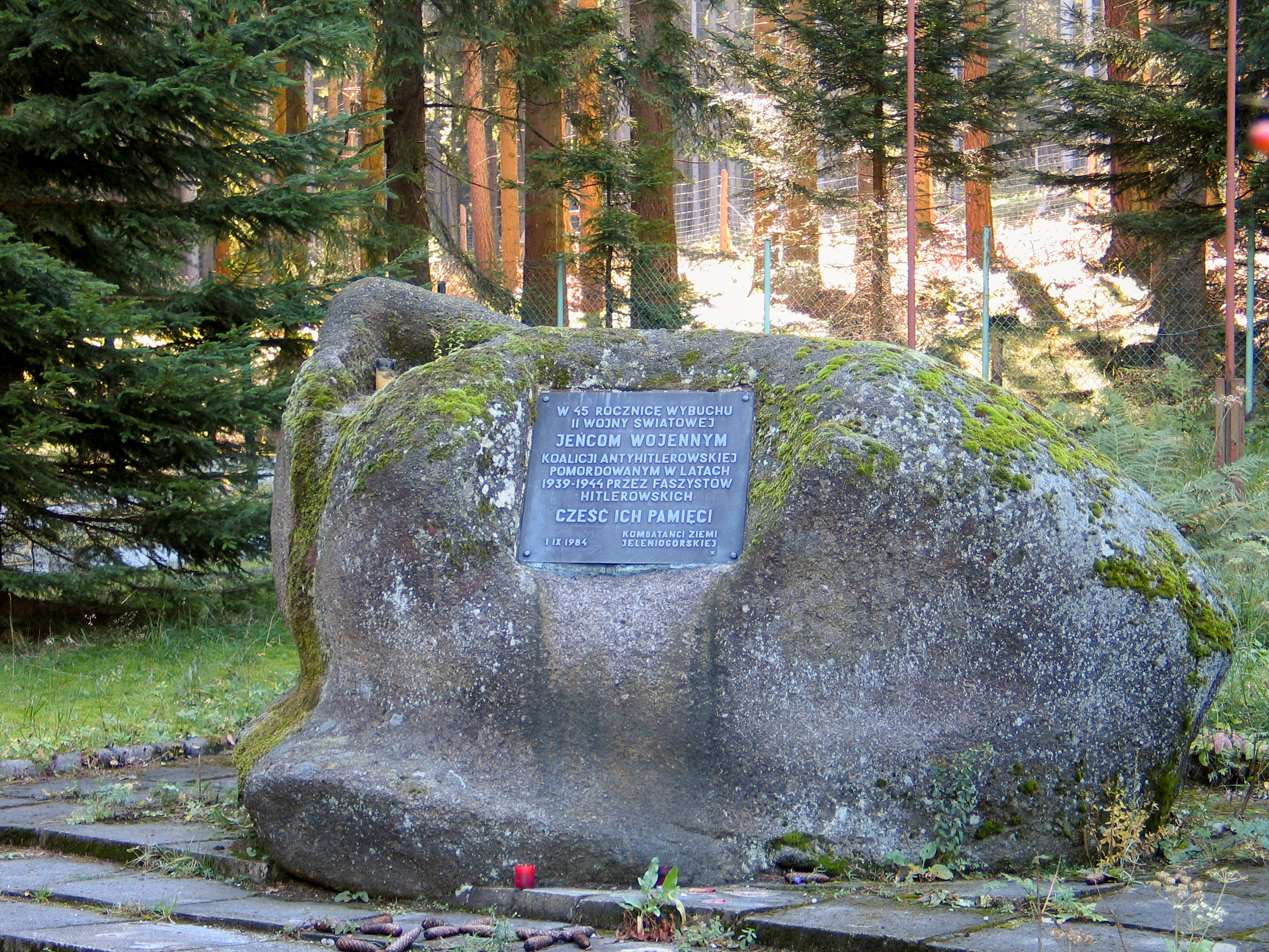 Monument on POW's Cemetery, Borowice, Lower Silesia, Poland.